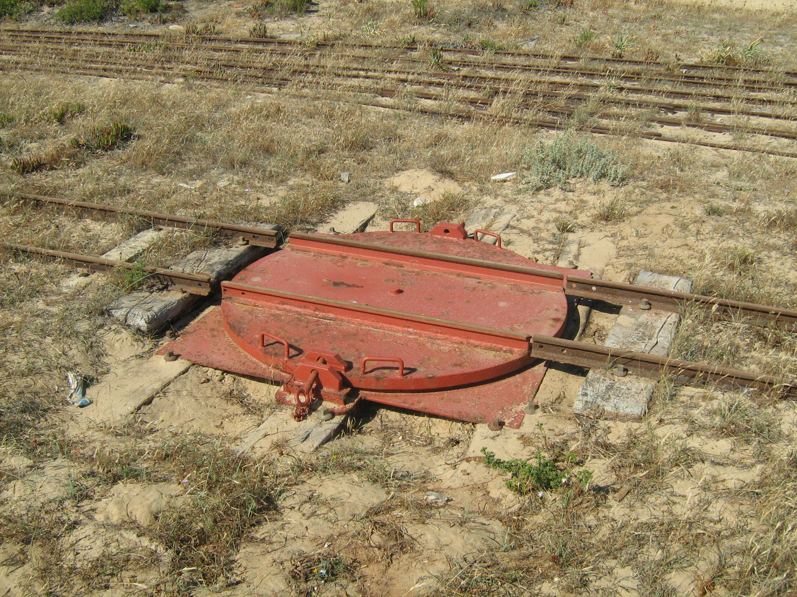 Decauville system train turntable, Transpraia, Costa da Caparica, Almada, Portugal